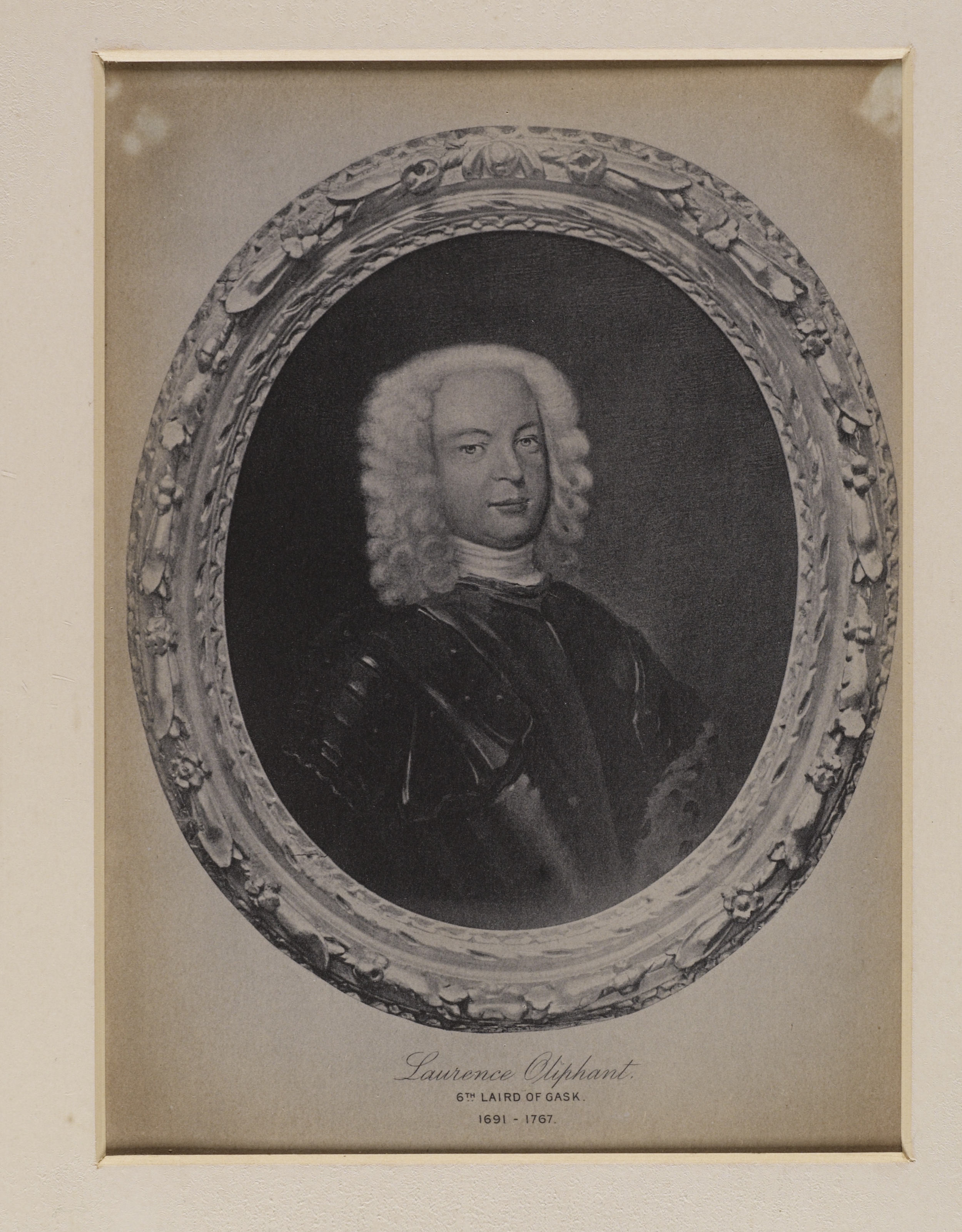 Laurance Oliphant, 6th. Laird of GASK (1691- 1767) Portrait of Laurence Oliphant in very ornate oval frame, dressed in armor